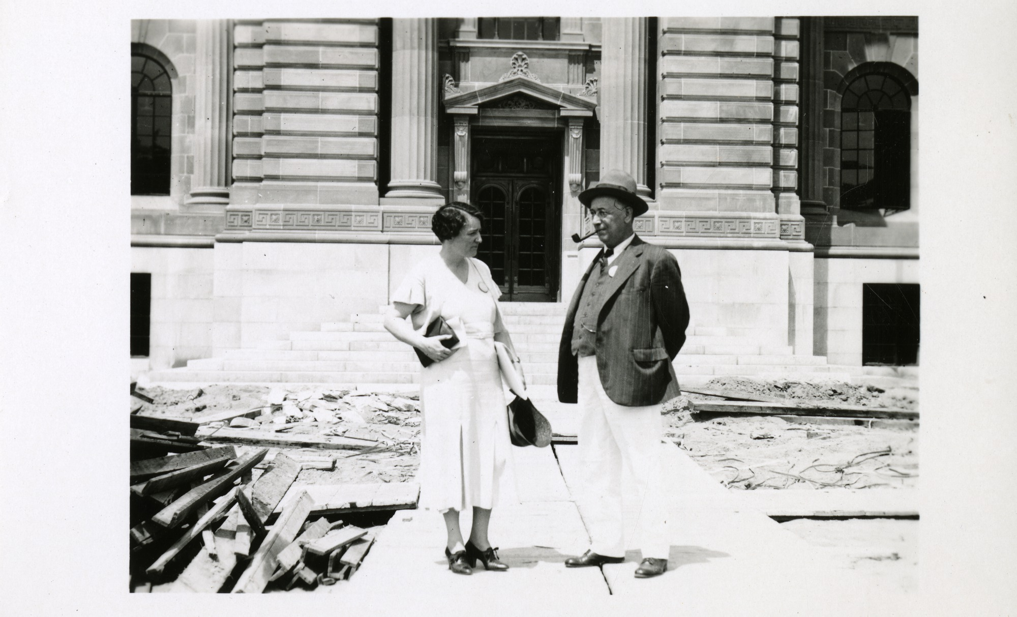 Subject: Davis, Helen Miles 1895-1957 Type: Black-and-white photographs Local number: SIA Acc. 90-105 [SIA2008-5365] Summary: Helen Miles Davis (1895-1957), chemist and wife of Science Service director Watson Davis, is shown (at left) with Canadian botanist and McGill University professor Francis Ernest Lloyd (1868-1947). They are probably standing in front of the National Academy of Sciences building in Washington, D.C Cite as: Acc. 90-105 - Science Service, Records, 1920s-1970s, Smithsonian Institution Archivess Persistent URL:Link to data base record Repository:Smithsonian Institution Archives View more collections from the Smithsonian Institution.